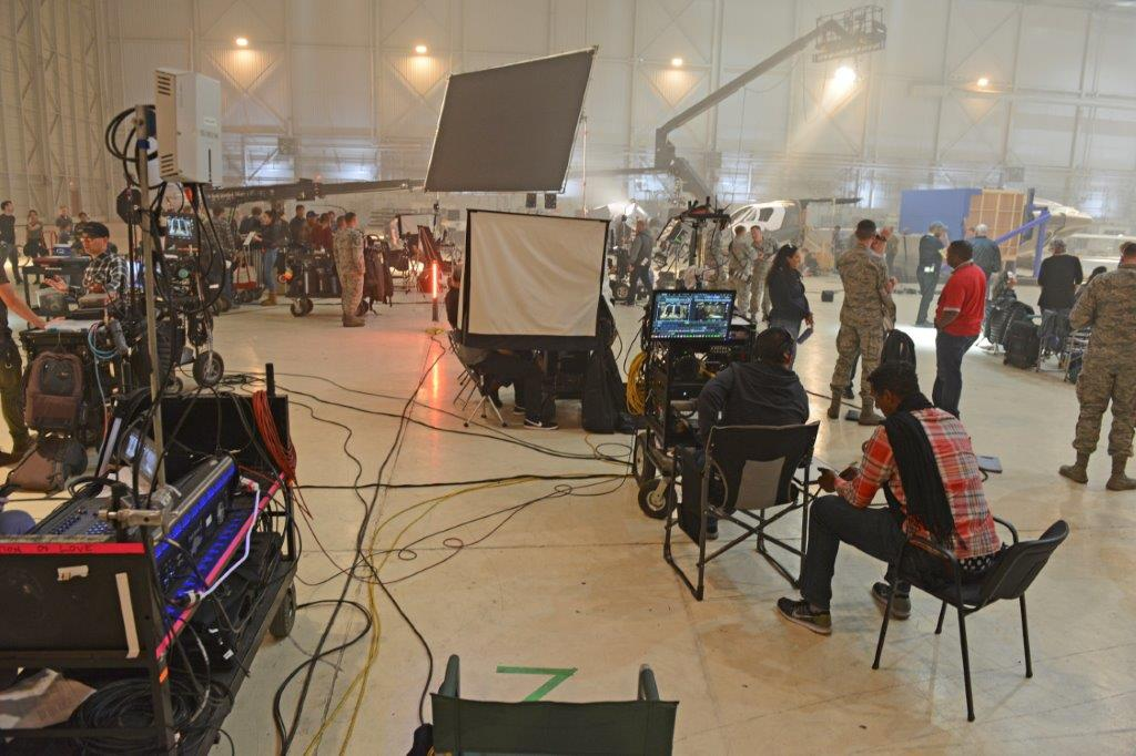 Behind the scene of the set of “Captain Marvel” during filming at Edwards Air Force Base, Calif. April 20, 2018. To ensure an accurate depiction of military service, filmmakers and actors immersed with Airmen from across the Air Force. (U.S. Air Force photo by Kenji Thuloweit)